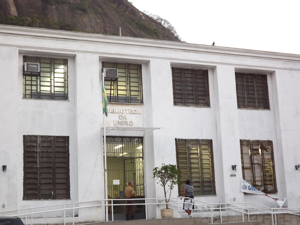 Library Unirio